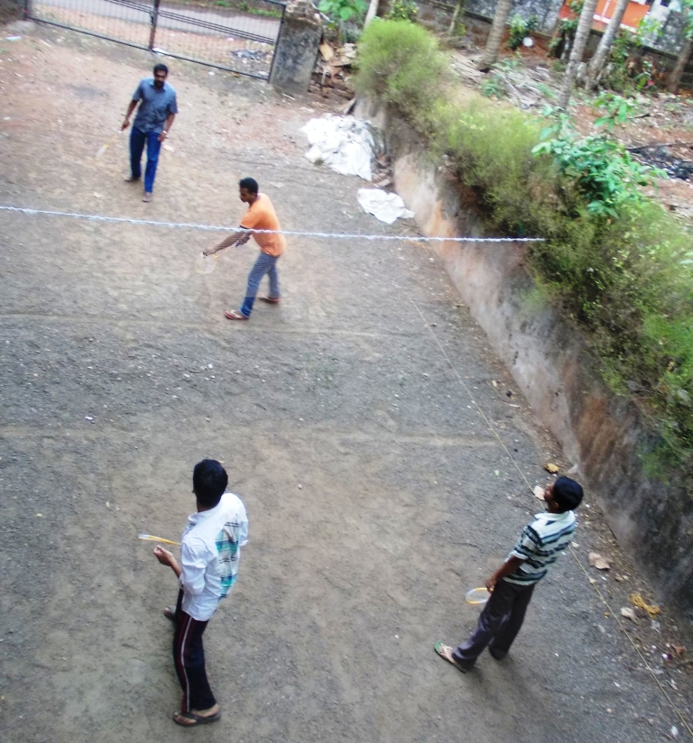 Badminton play